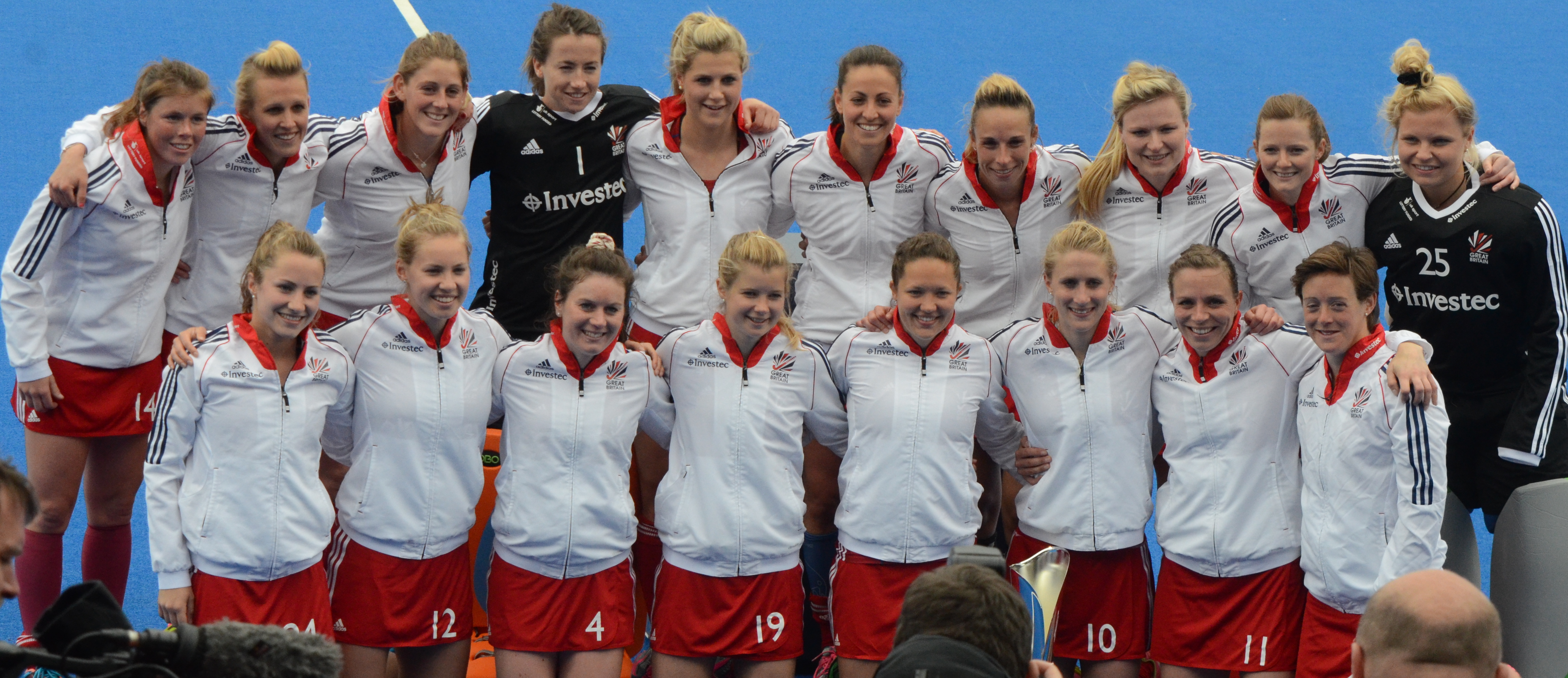 Great Britain v Japan